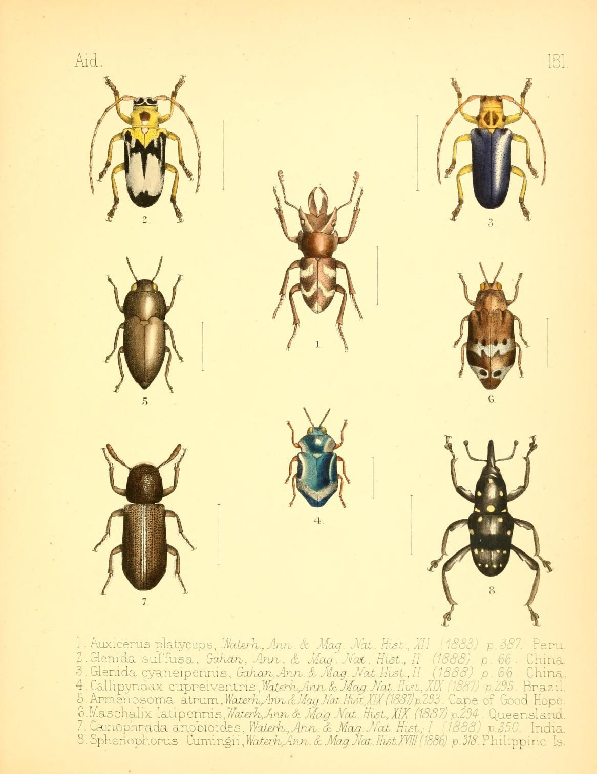 181. 1 . Aioxicerus platyceps, Waterk.,Anrb. & jMag. jVal. Must., XI l ( Idddj p.cj87. Peru. 2.&lenida sufflisa, GoJruuh, Ann.. &, Mag. Mat. Hist., II (1888) p . 66 ■ China. 3 Glenida cyaneipennis, Qalhcai.Ayiru. &. Moug. J\fout.Hist., II (1888) p. 66 . China. 4.Callipyndax cupreivei\iris,Waterh.,Aym..SoMci^.J^at. Hist, III (1887) p. 195. Brazil. 5 Armenosoma air\im,Waterh.,A7iro.dMcig..jat.Hist.,XII (W7jp.293 . Cape of Good Hope. G.Maschalix \a.l\per\ms,Wajberh,Ami.& McugJfal. Hist.JlX f18S7)p.234 . Queensland. 7. Caenophrada anohioides, Waier'k,Ami. &, Mixg.Afod,. Hist.,- 1 (1888) v. 350. India. 8 . Spheriophoms Cummgii , WaM.'KAnTh. & Mag.lMot. HistXM(W6) p.5J8. Phi lippme Is.